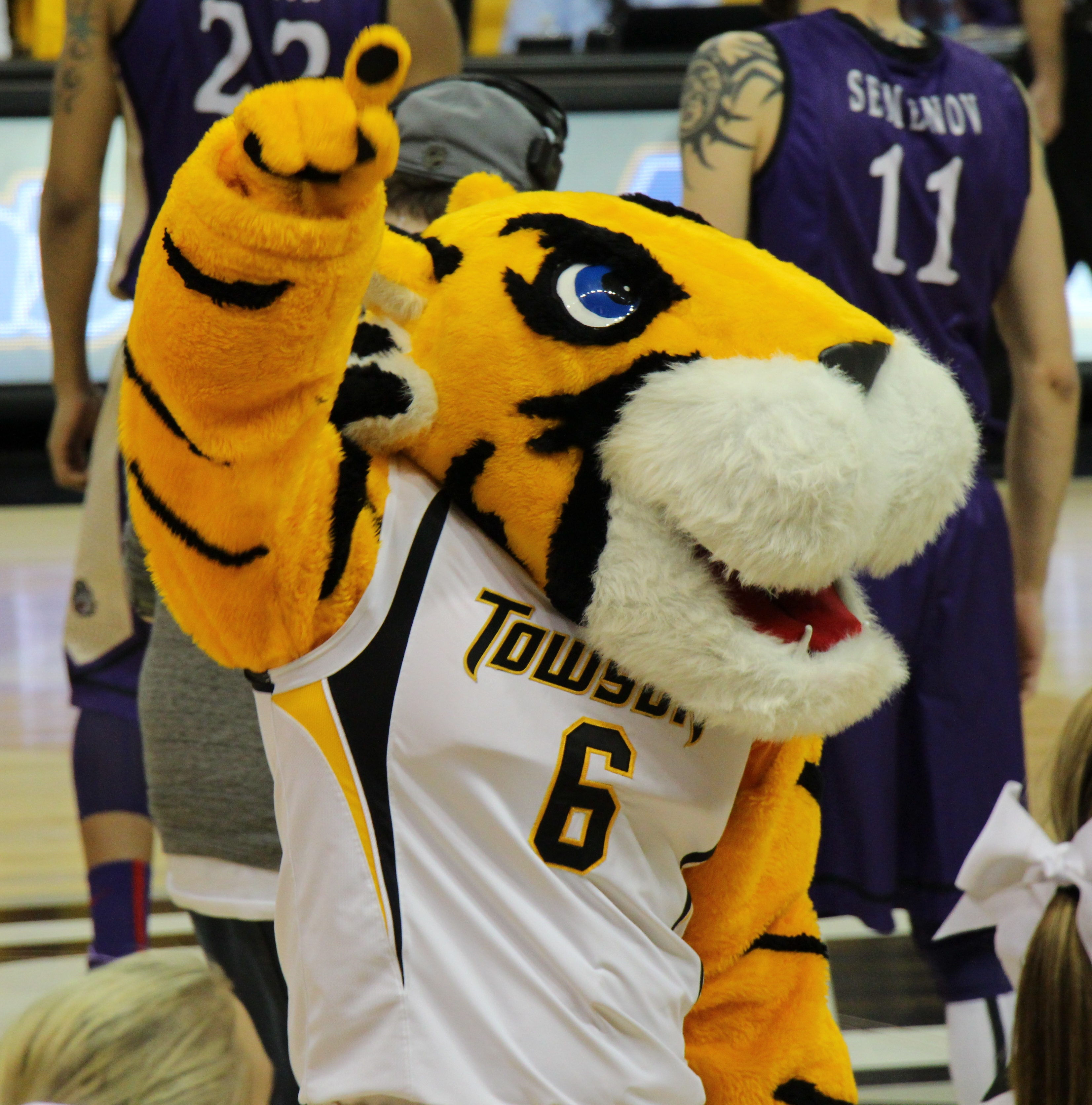 Doc the Tiger at a Towson Tigers men's basketball game versus the James Madison Dukes